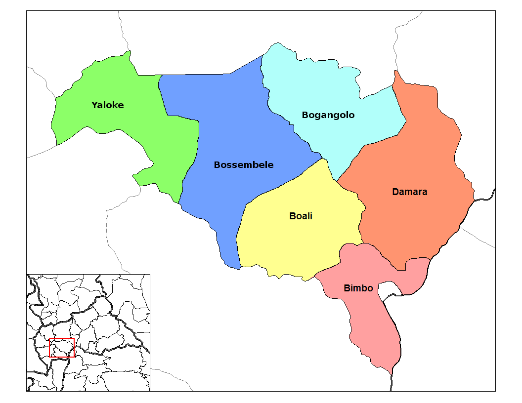 Map of the sub-prefectures of Ombella-M'Poko prefecture in the Central African Republic. Created by Rarelibra 20:37, 31 August 2006 (UTC) for public domain use, using MapInfo Professional v8.5 and various mapping resources.